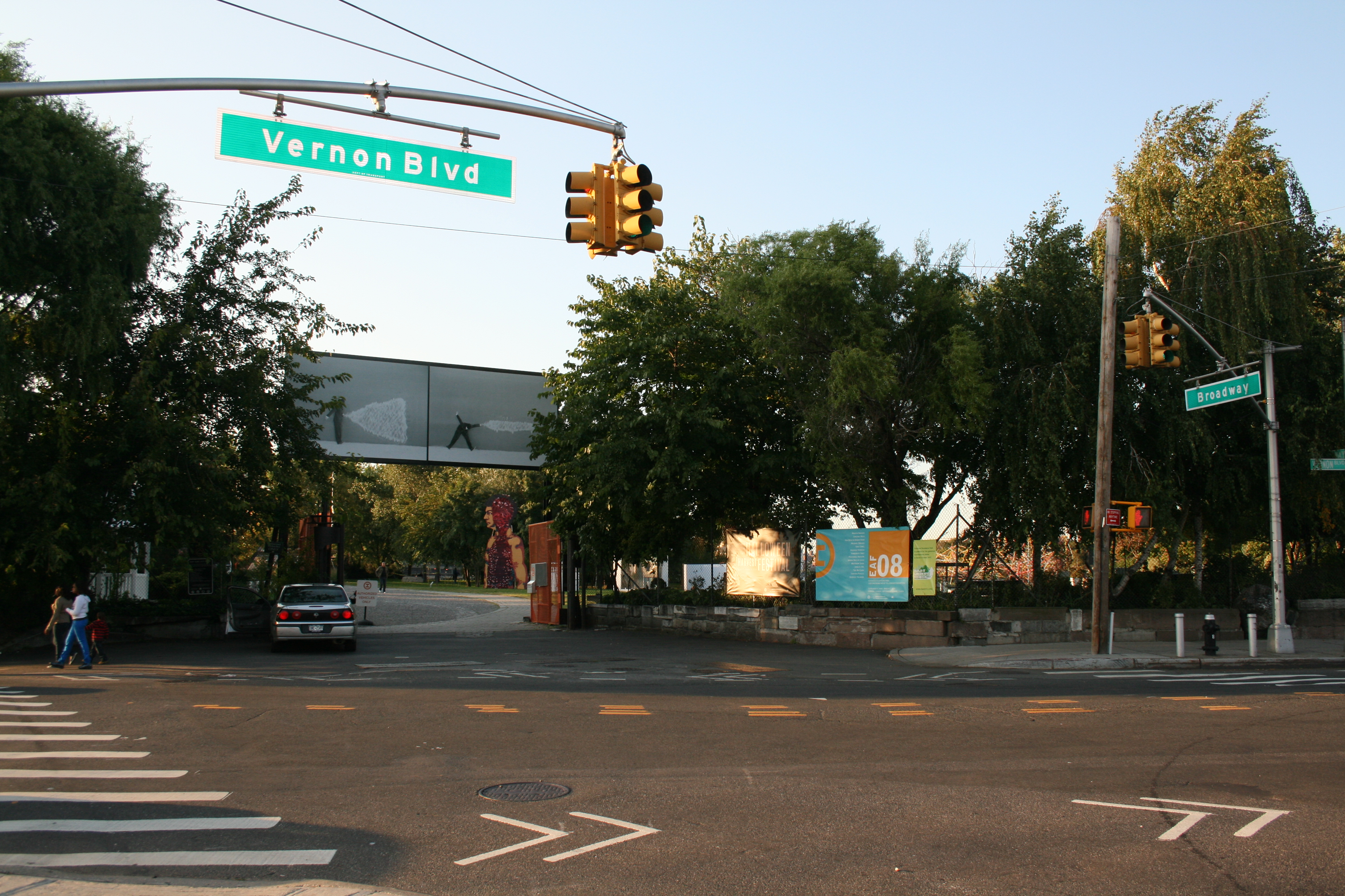 This photo is of Wikis Take Manhattan goal code L11, Socrates Sculpture Park.